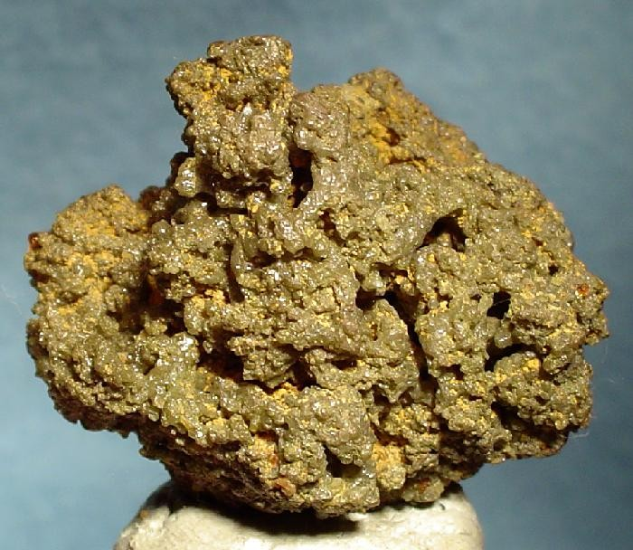 Chlorargyrite (Var.: Bromian Chlorargyrite) Locality: Broken Hill, Yancowinna County, New South Wales, Australia (Locality at ) Size: 3.3 x 2.8 x 2.6 cm. This is an extremely rich and fine specimen of this very rare silver species, with superb discrete crystals, from the classic and best locality of old Broken Hill. This piece is solid bromian chlorargyrite with a unique coral-like form. The dark olive-green crystals have excellent waxy lustre. This is a rare member of the group of related silver chlorides from Broken Hill, and hard to obtain today in good specimens. This old-time piece is certainly around 100 years old or older. It was purchased by the Smithsonian or their donor perhaps, from A.E. Foote around the turn of the 1900s. Ex. Smithsonian Collection, exchanged to Dr Gary Hansen in the 1970s. Ex. Hansen Collection, 2005.